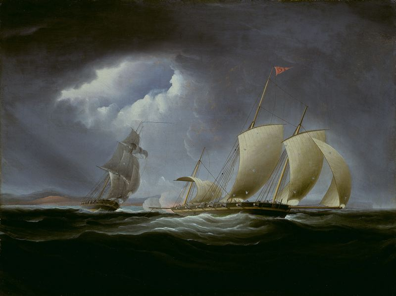 Capture of the Tripoli by the Enterprise